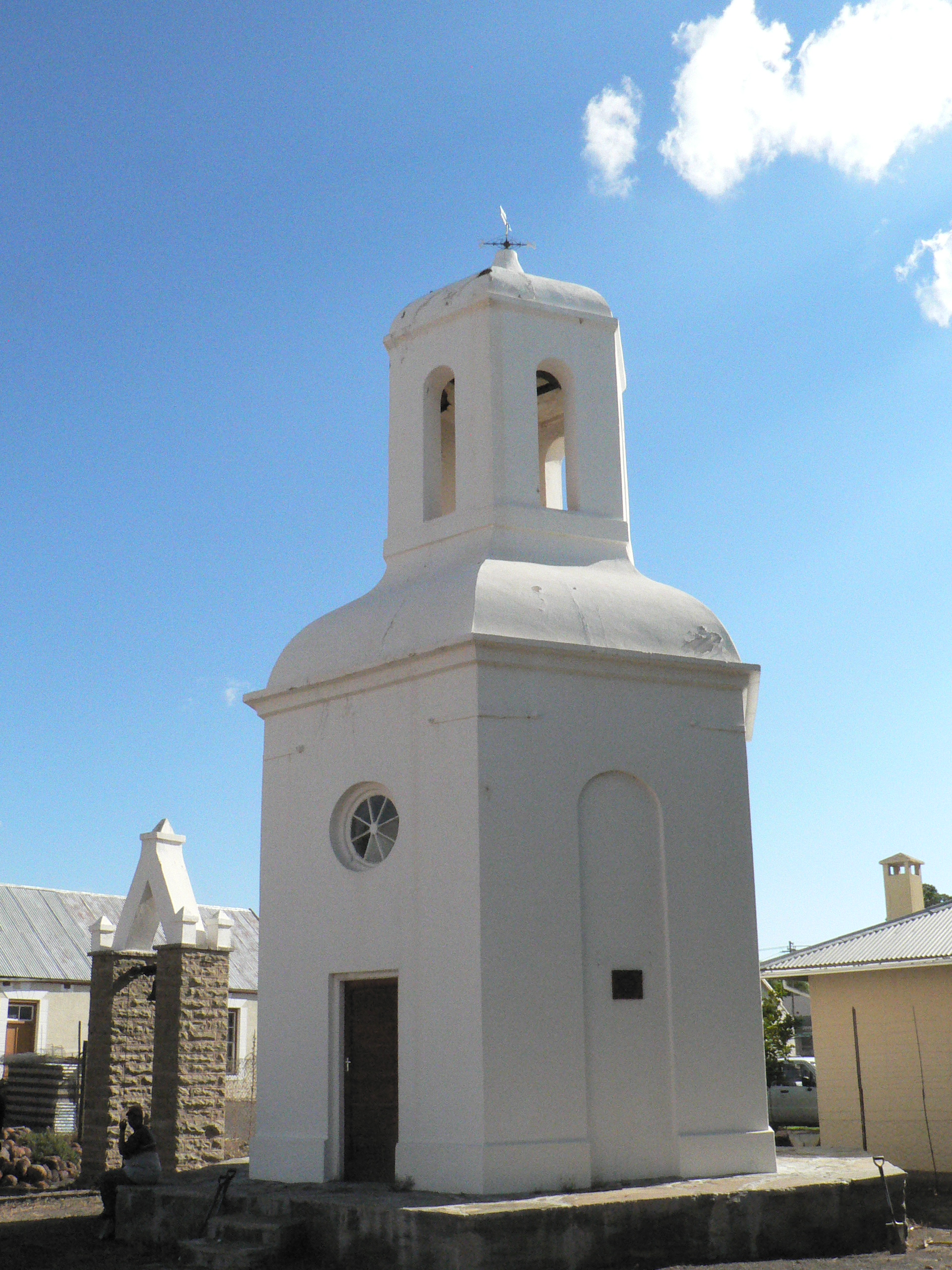 This media shows a South African Protected Site with SAHRA file reference 9/2/029/0005.